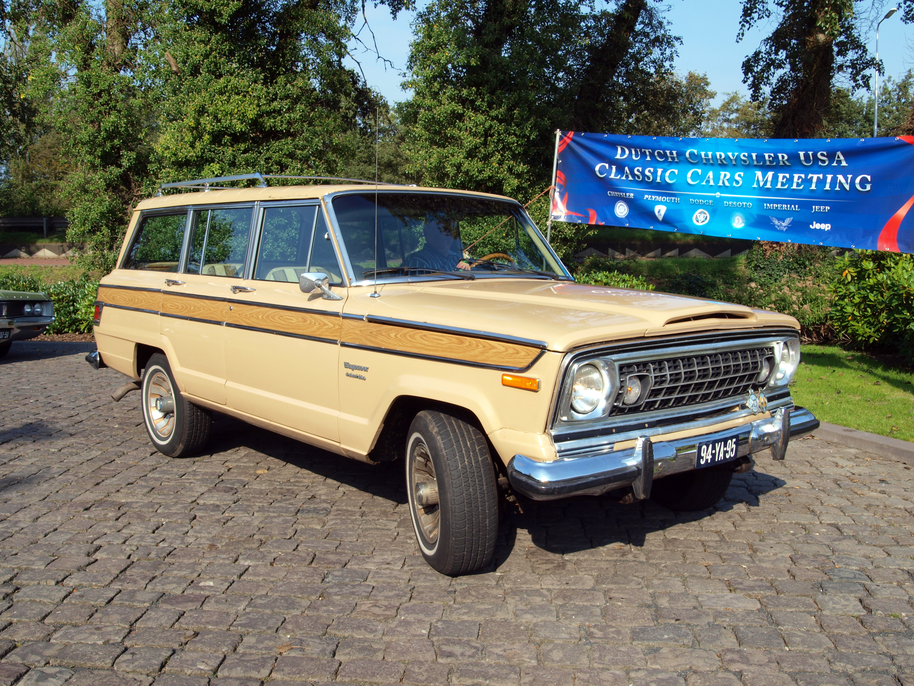 Photographed at the premmesis of the Louwman museum, The Hague, The Netherlands. OLYMPUS DIGITAL CAMERA